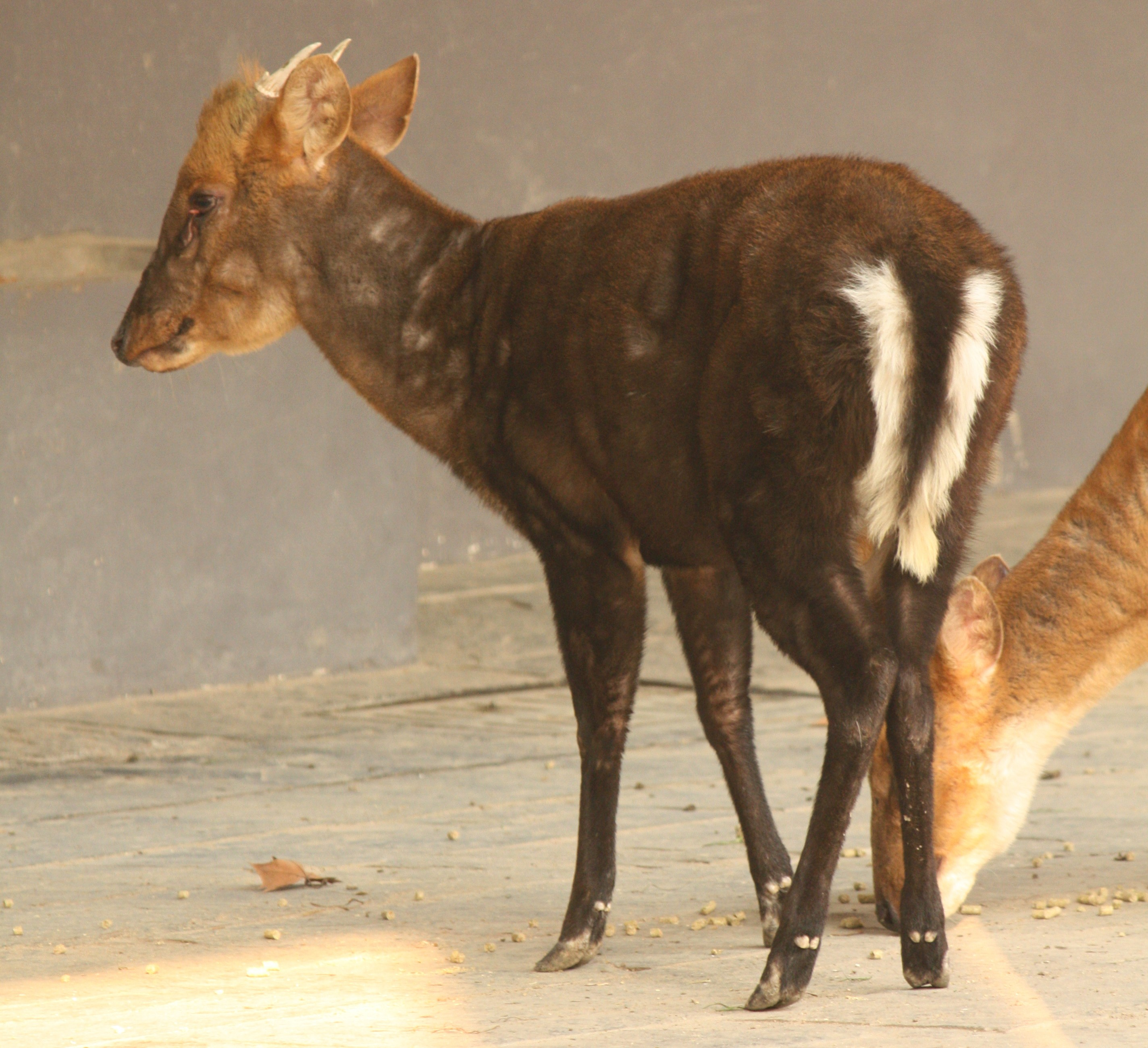 Black Muntjac (Muntiacus crinifrons) in Shanghai Zoo